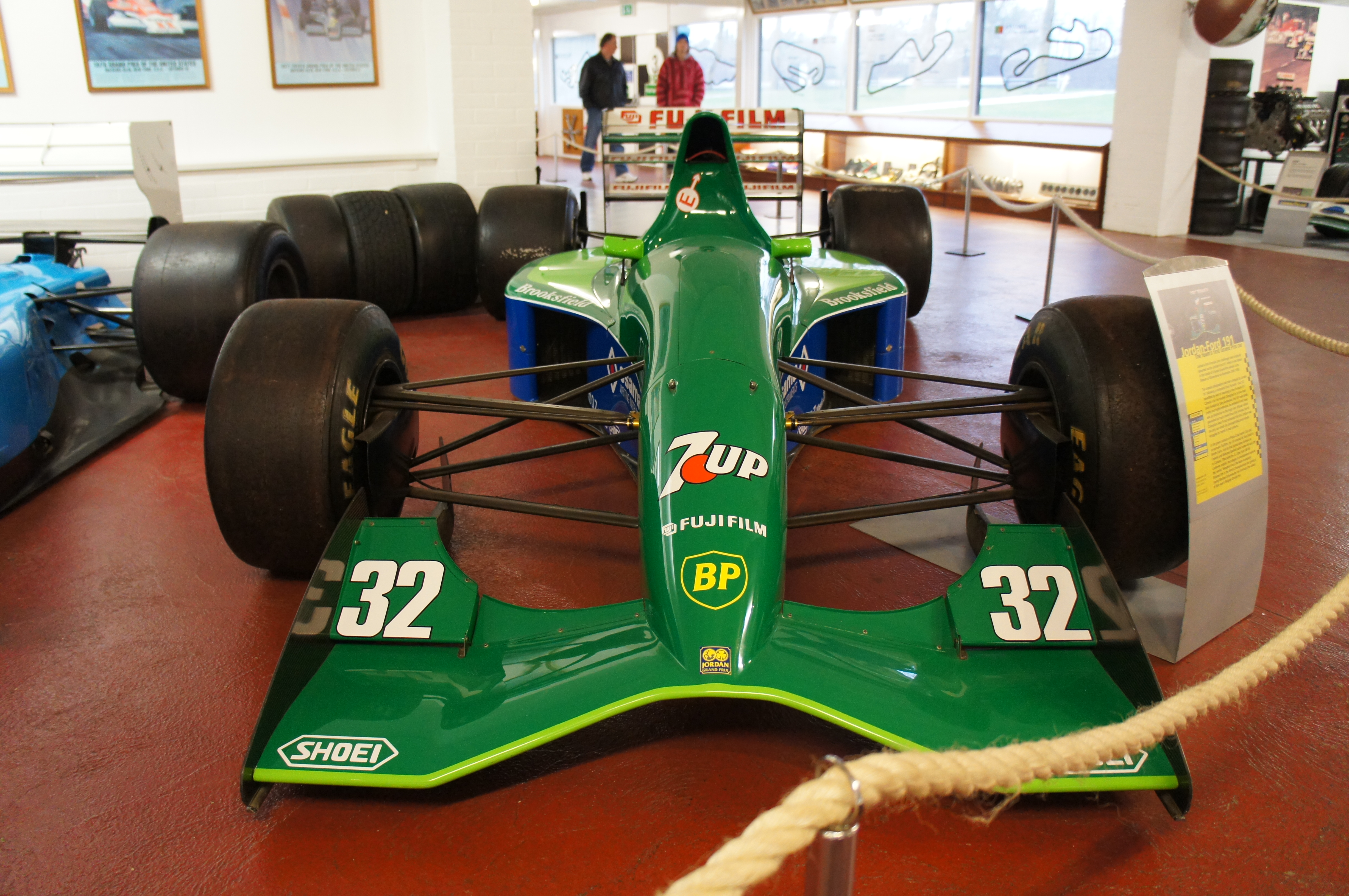 Jordan 191 at Donington Park.